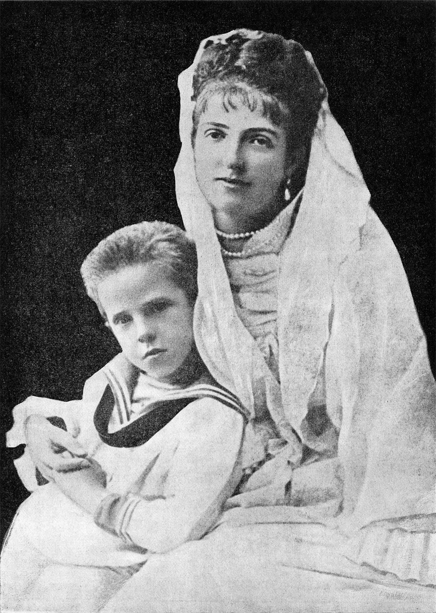 Queen Margherita of Italy with her son Vittorio Emanuele, Chioggia, summer of 1876.